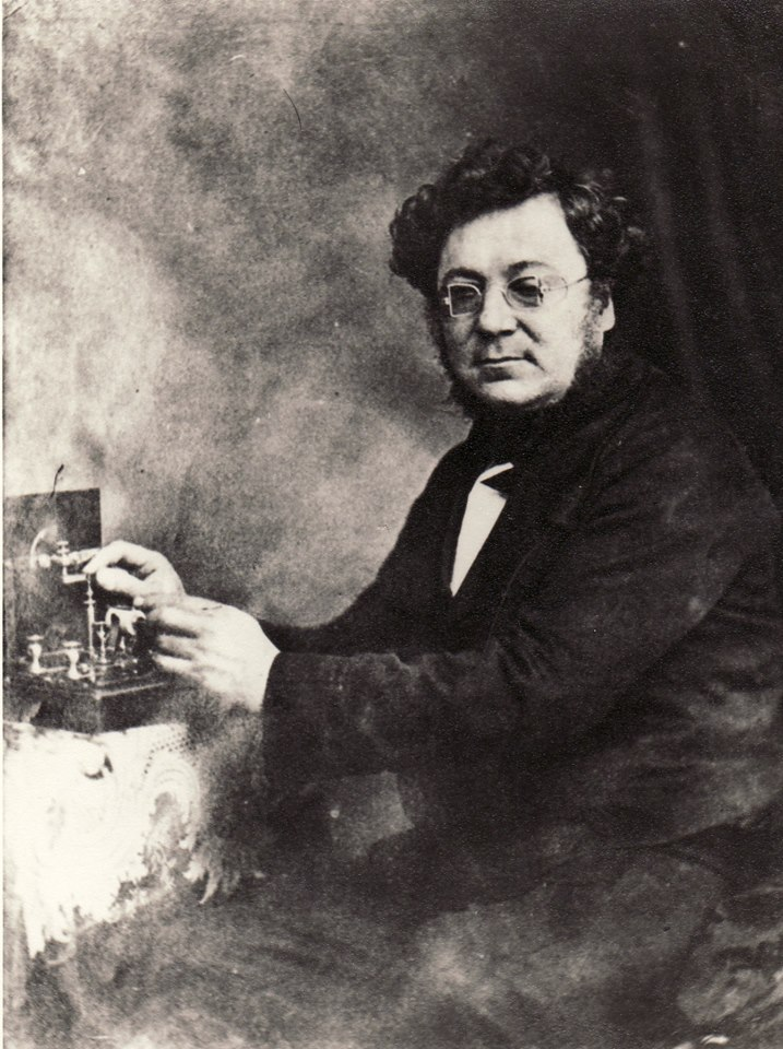 Jonathon Nash Hearder portrait